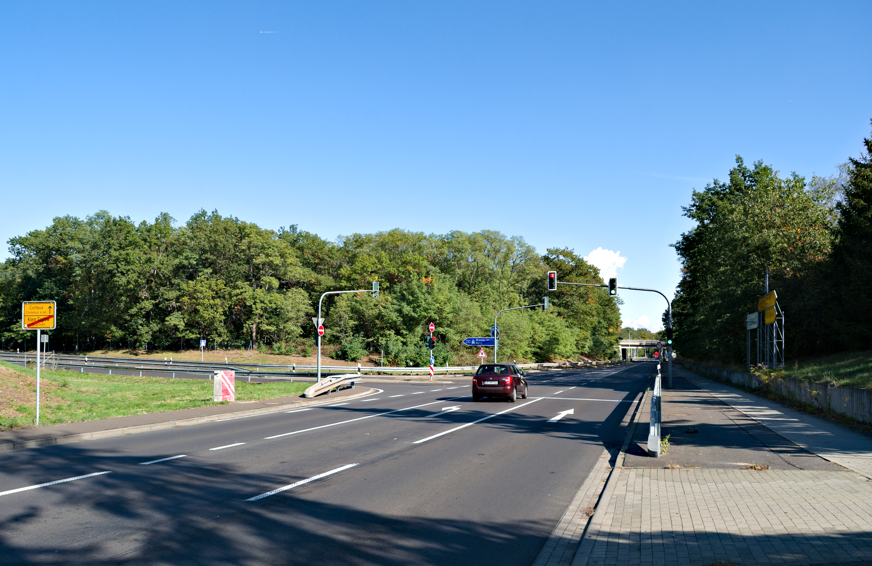 Cottbus-West, exit no. 4 of Bundesautobahn 15 connecting with Bundesstraße 169. The motorway bridge also serves as the administrative boundary between Cottbus-Sachsendorf and Klein Gaglow (Gemeinde Kolkwitz).